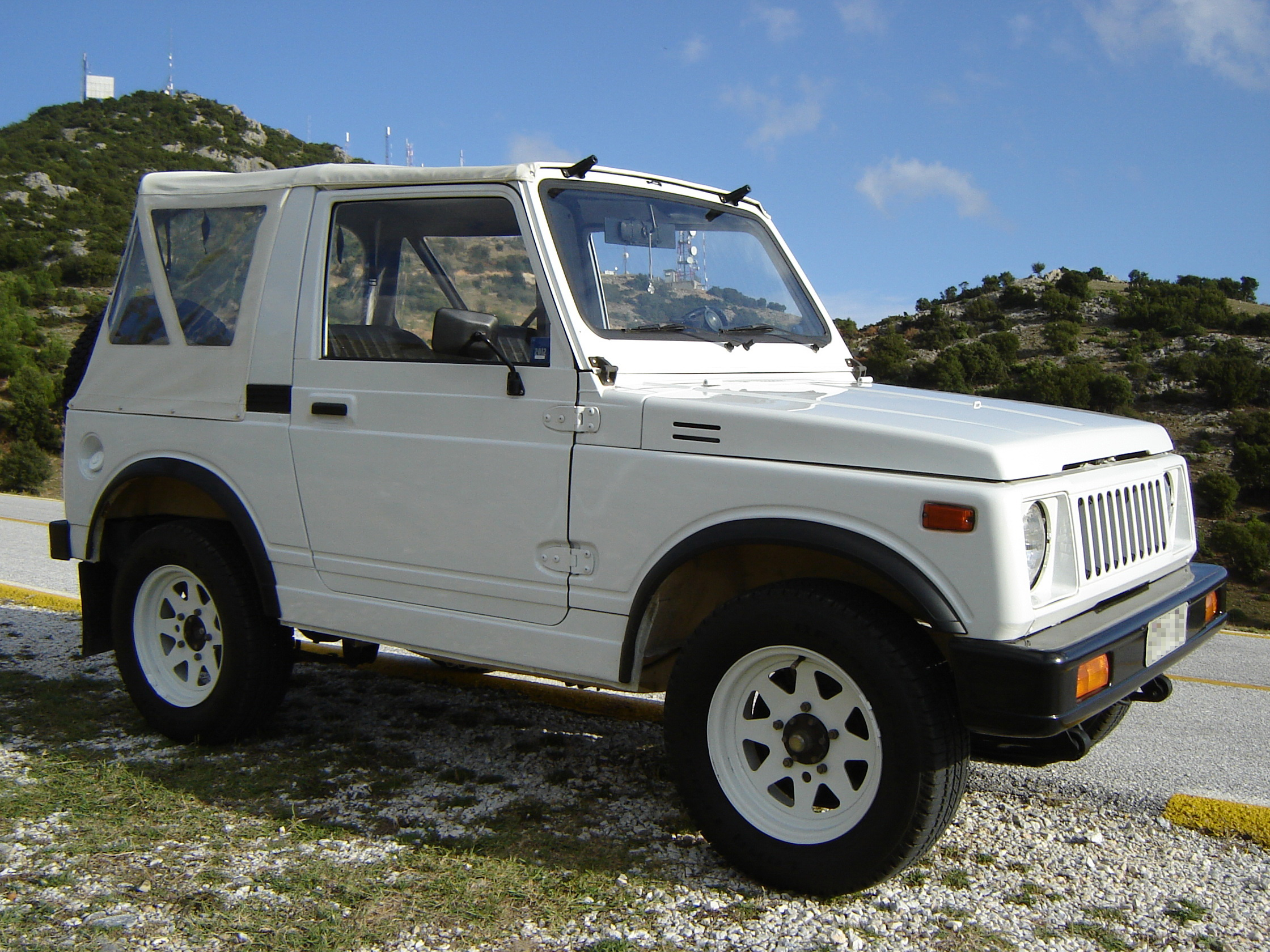 Year of Manufacture: 1982, Type: SJ410U, Engine: F10A